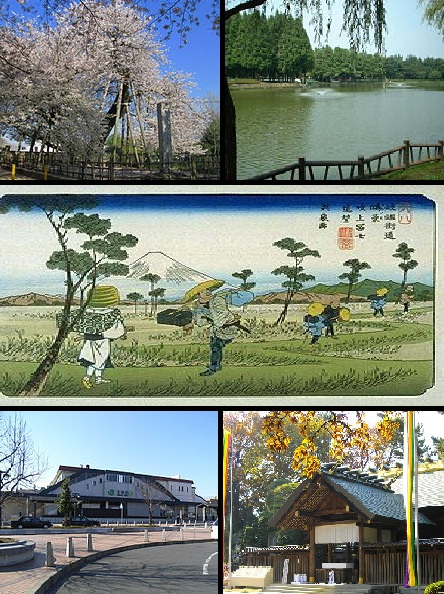 Kitamoto montage